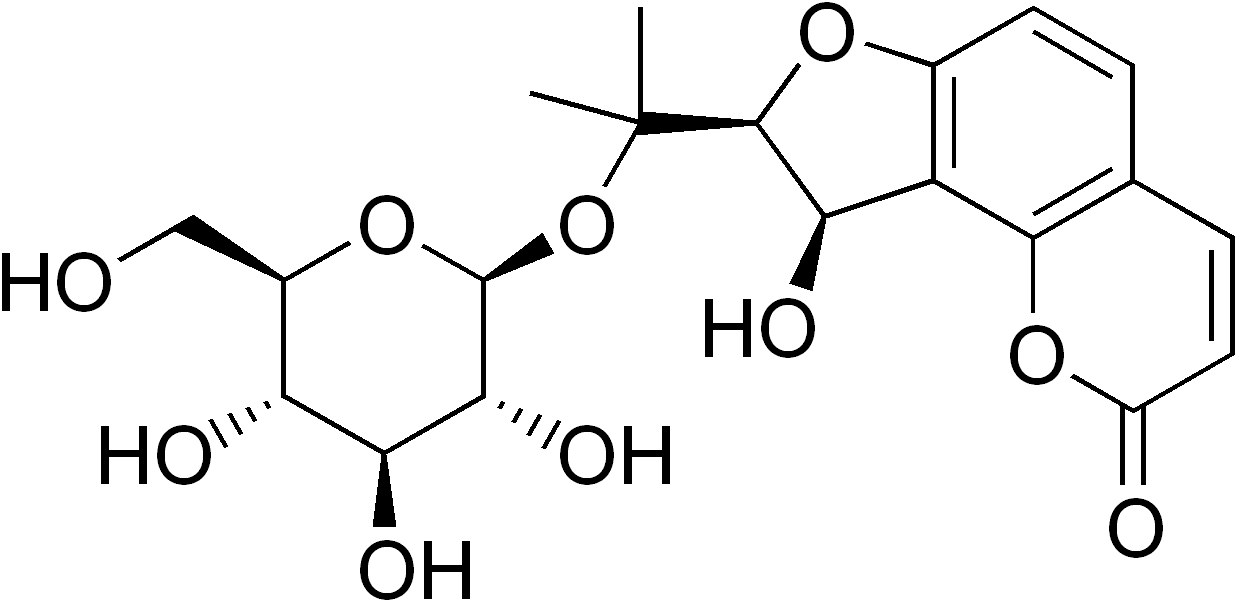 chemical structure of apterin